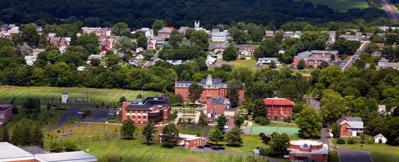 Aerial view of The Perkiomen School's 172 acre campus in Pennsburg, PA.